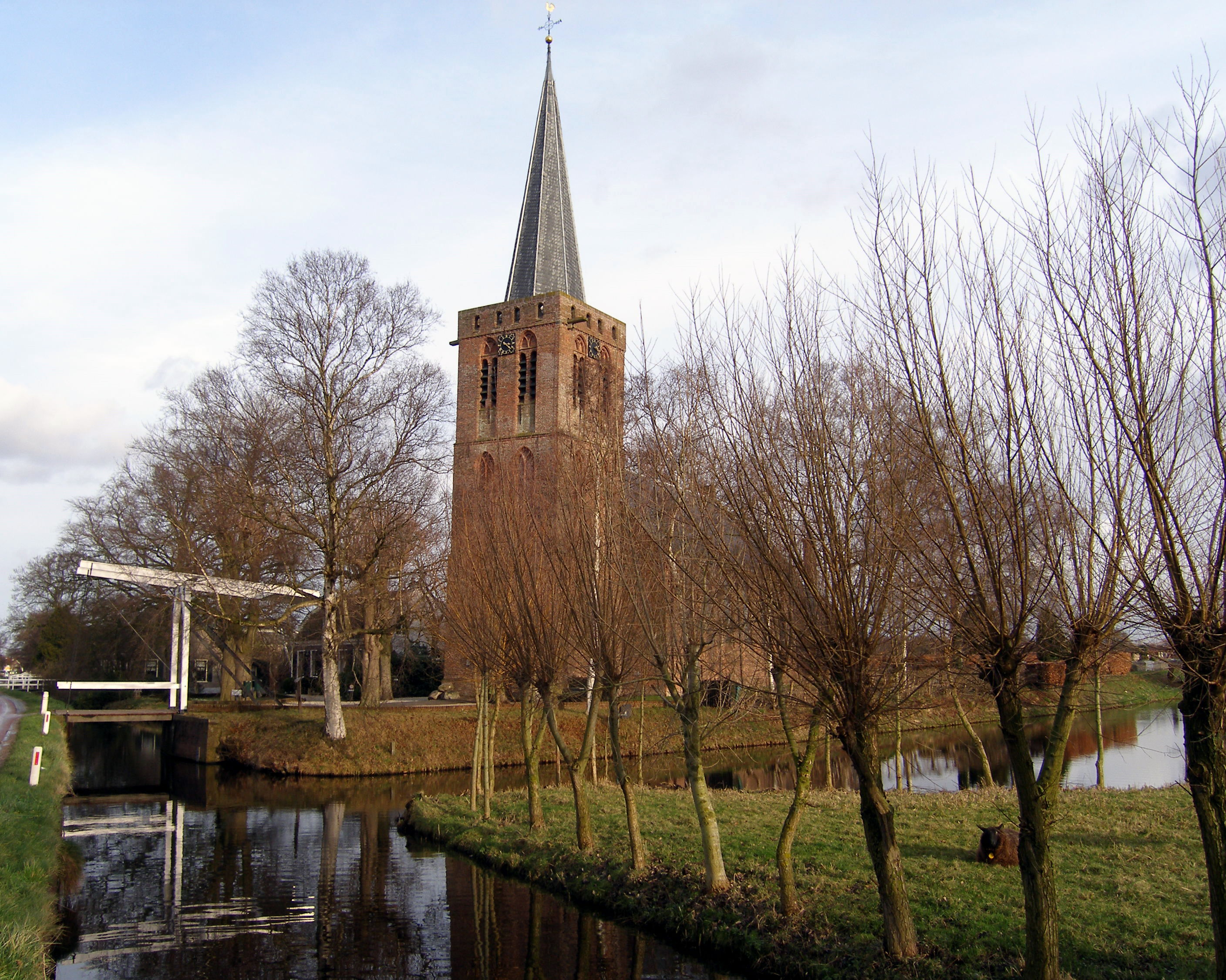 Dutch Reformed Church of Kortenhoef.